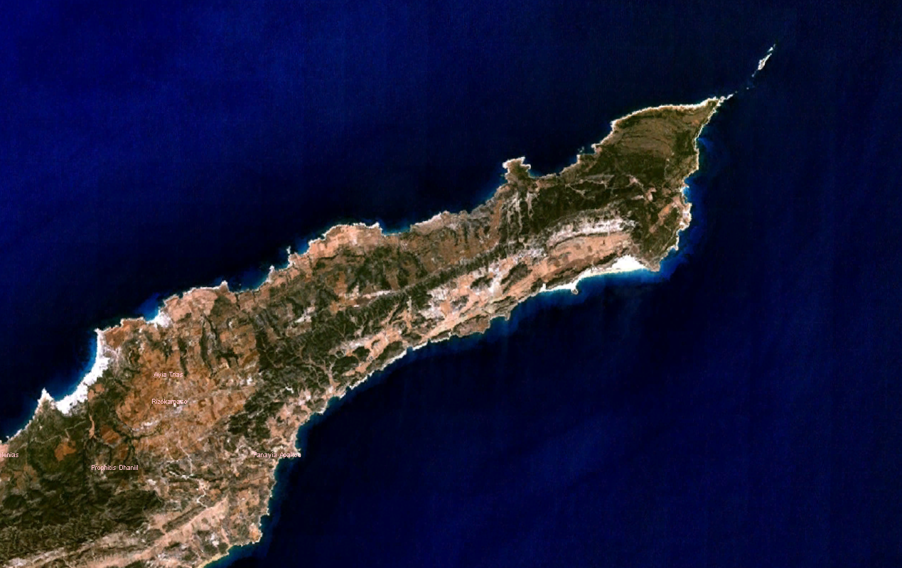 Karpass Peninsula from the Space